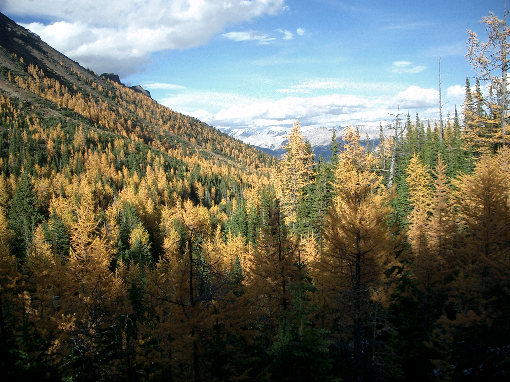 Subalpine Larch Larix lyallii - Subalpine Fir Abies lasiocarpa forest near Banff, Alberta. The larches turn brilliant yellow for about two weeks in late September, and then the winds blow the needles off.